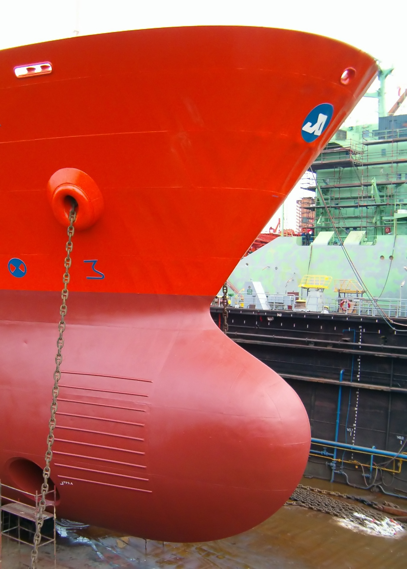 Bow of a ship